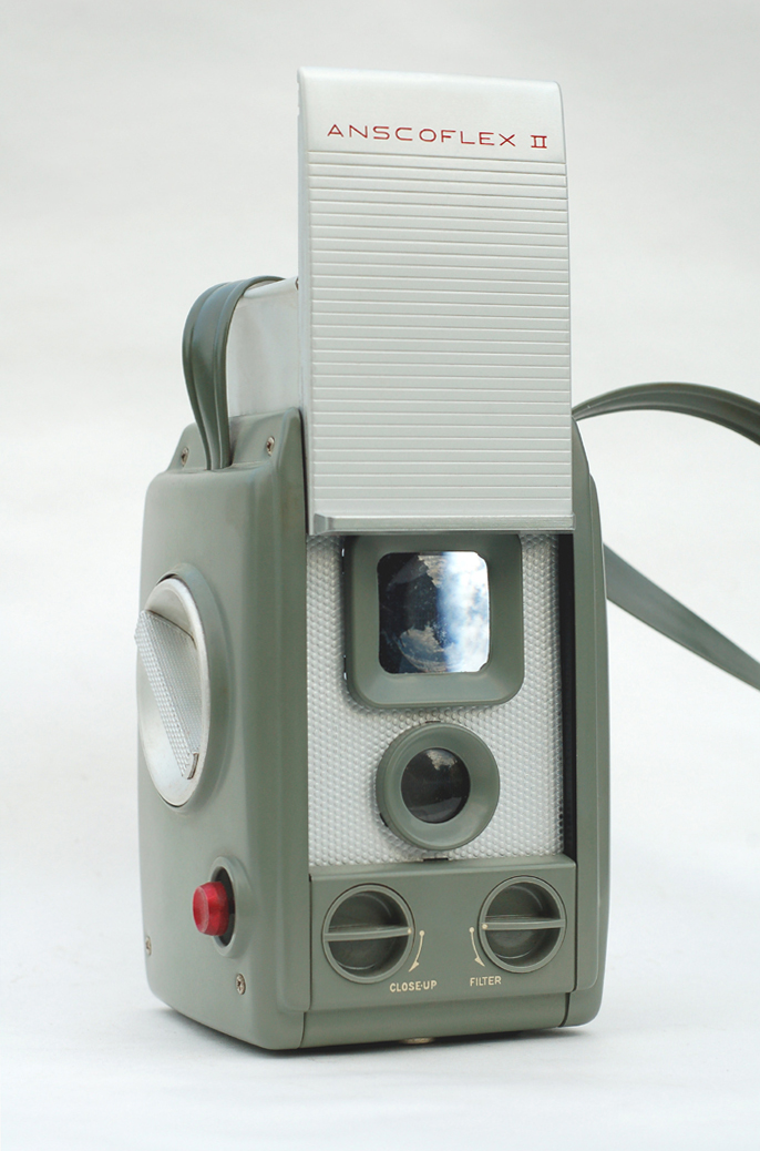 If you have an interest in classic cameras, you're probably familiar with this one. Designed by Raymond Loewy and made of metal, the Anscoflex features a protective front panel which, when raised, opens the viewfinder cover at the top via a clever mechanical linkage. The difference between this model and the original Anscoflex is that this one has the addition of a close-up lens and yellow filter, which swing into place by turning the knobs beneath the lens. Made by Ansco (New York) c1954